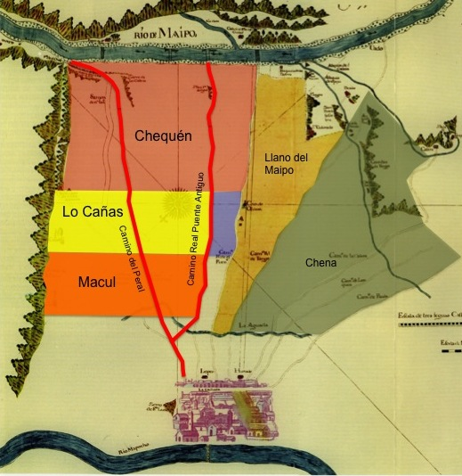 Peral Road